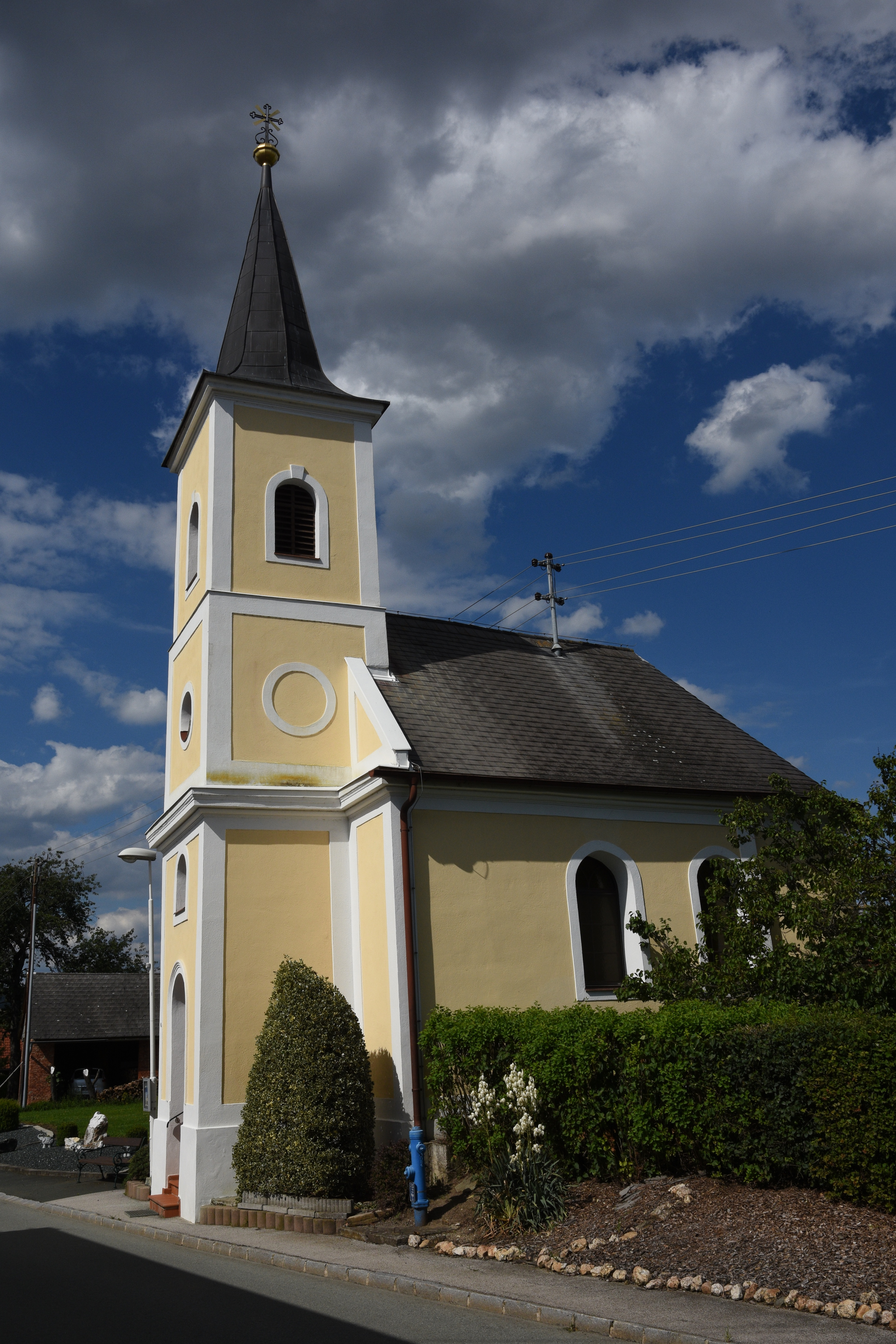 Saint Anthony of Padua Church (Podler)